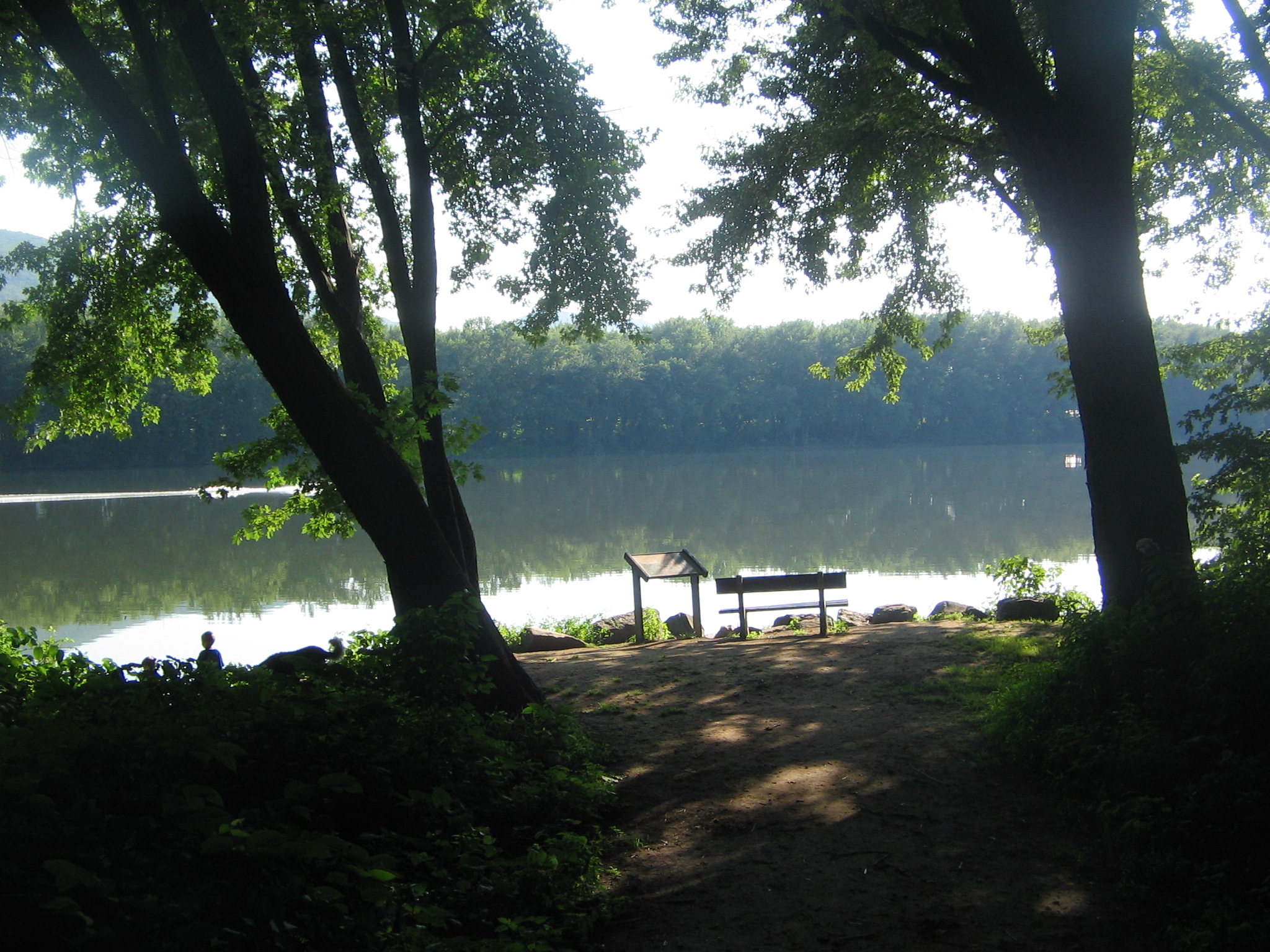 View to the West Branch Susquehanna River with park bench and interpretive sign, on Canfield Island in Riverfront Park, Loyalsock Township, Lycoming County, Pennsylvania, USA